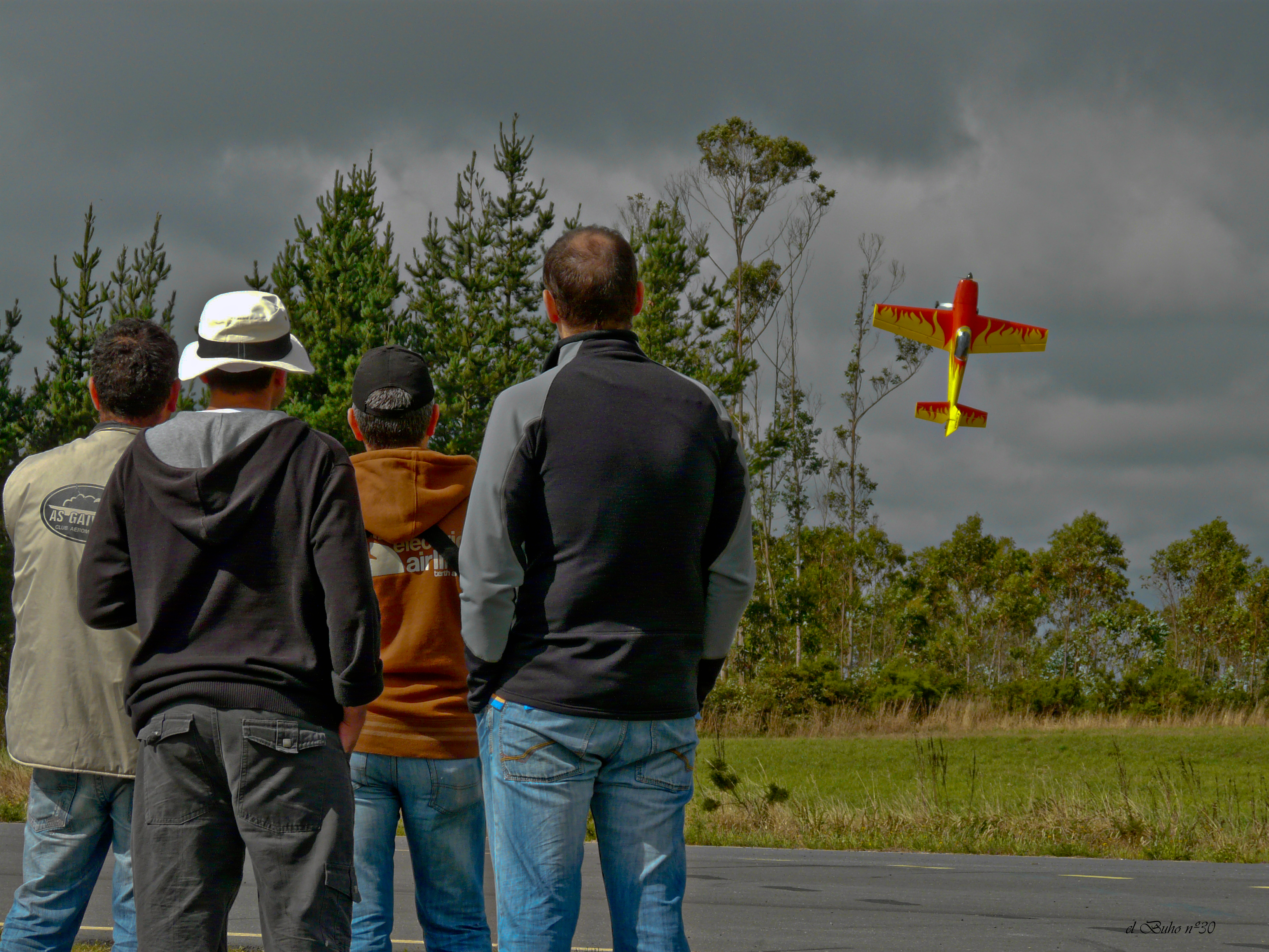 Acrobatic airplane modeling exhibition 'Centollo meeting 2010' at Rodís, Cerceda, A Coruña, Galicia, Spain.